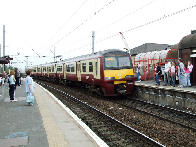 Partick Station